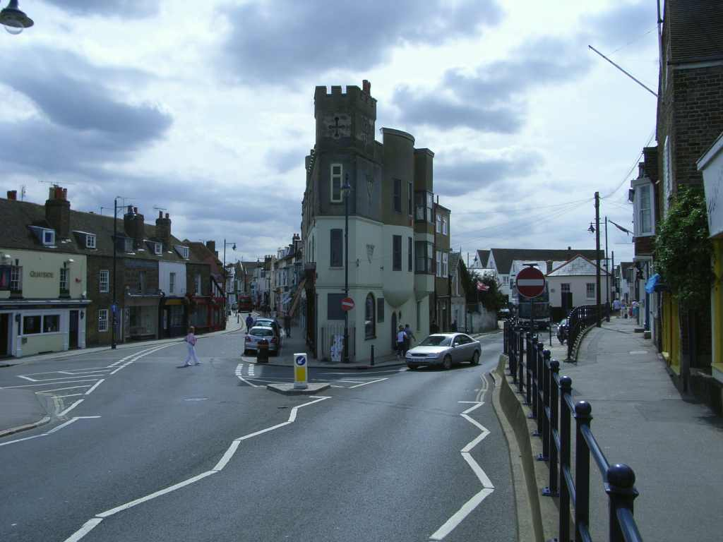 Whitstable